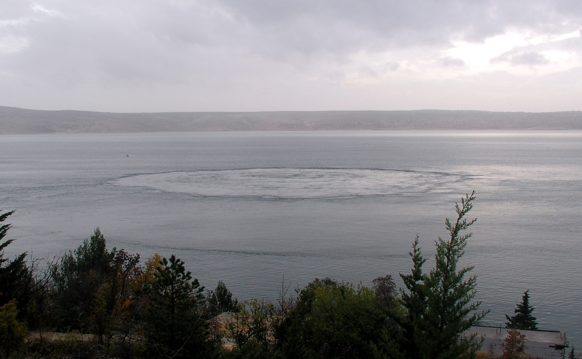 Submarine karst spring (Vrulje) of Modric near Rovanjska (Croatia).